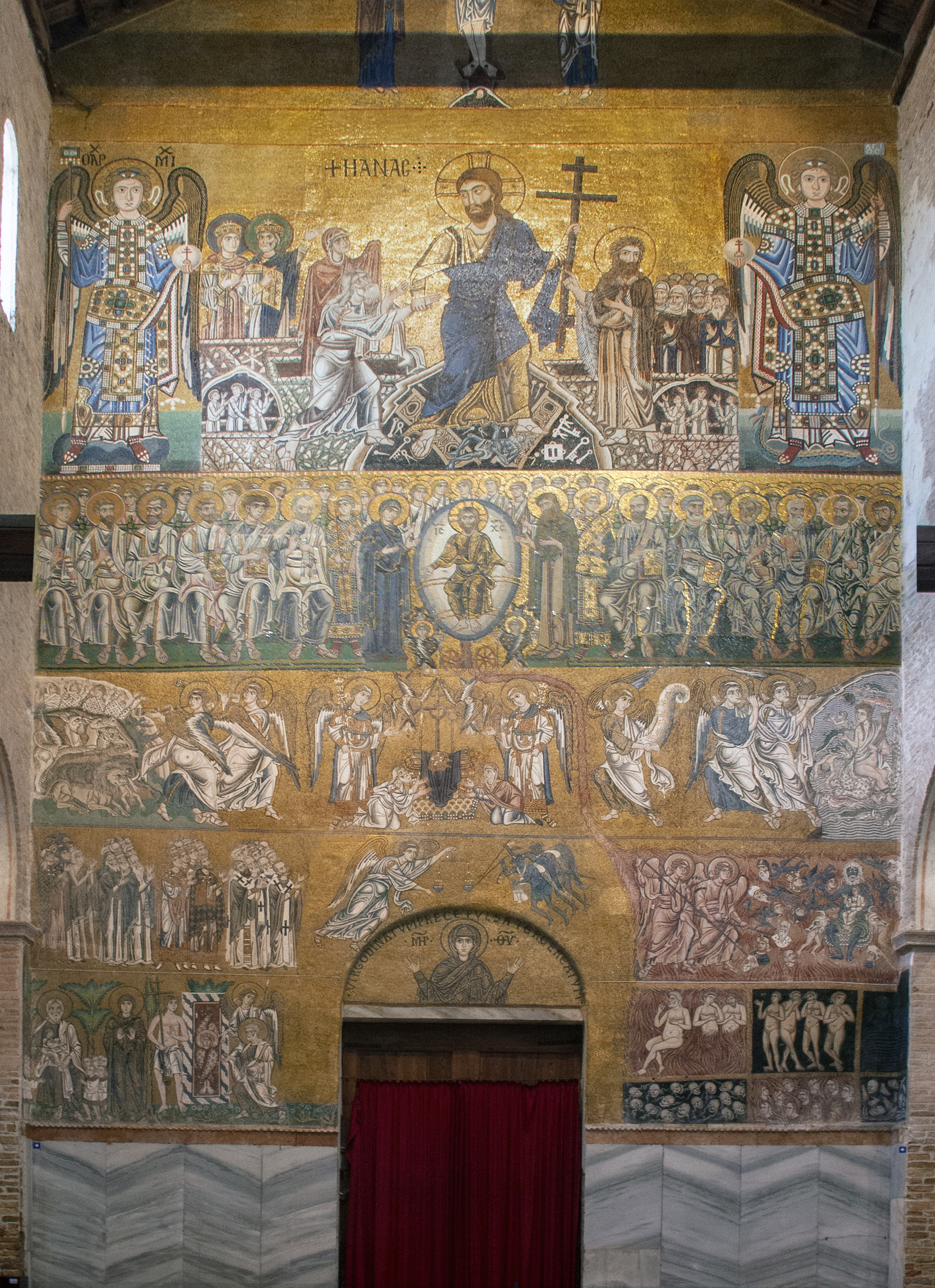 Mosaic of the Last Judgment of Santa Maria Assunta (Torcello).